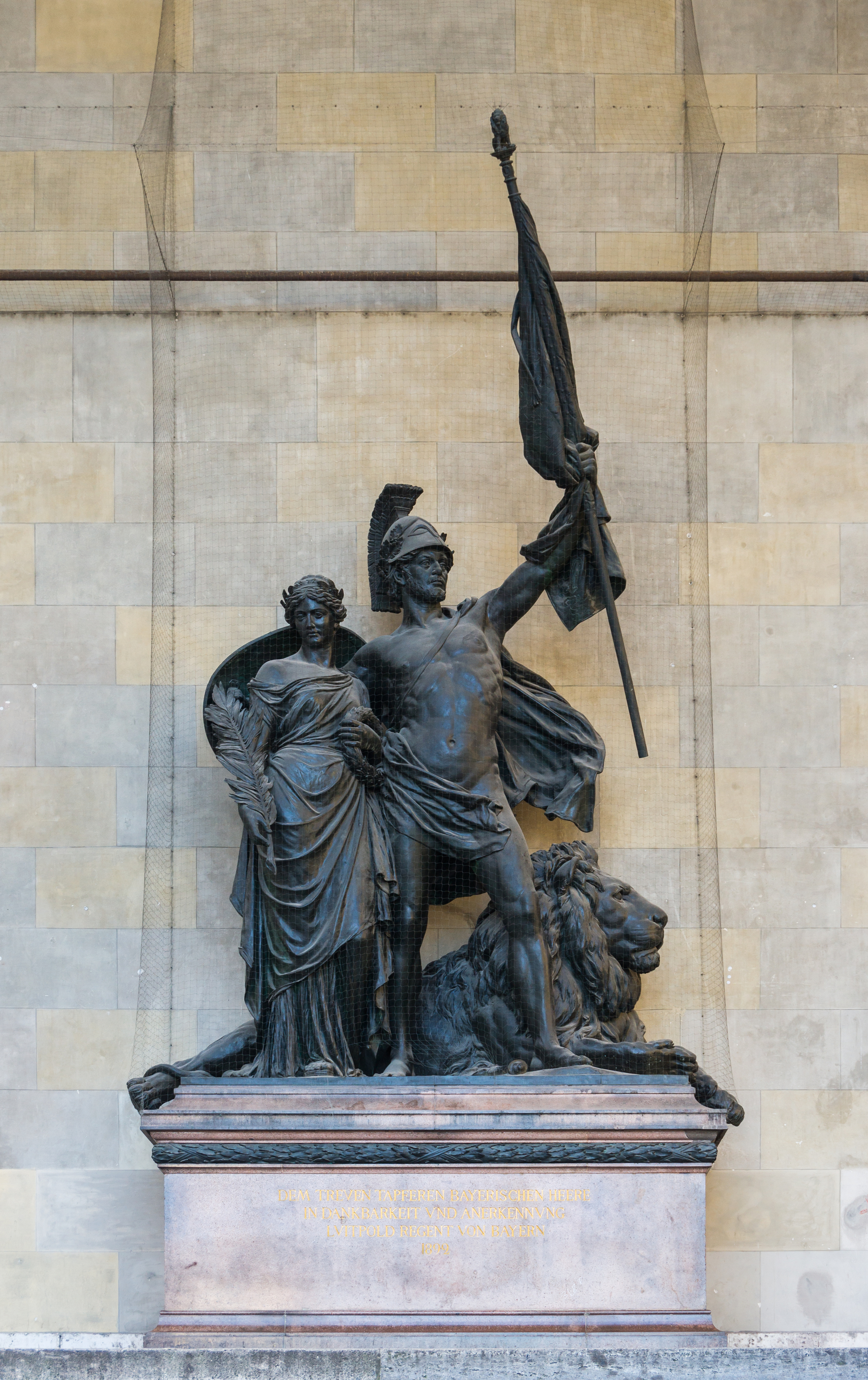 Monument to the bavarian army, Feldherrnhalle, Munich, Bavaria, Germany.